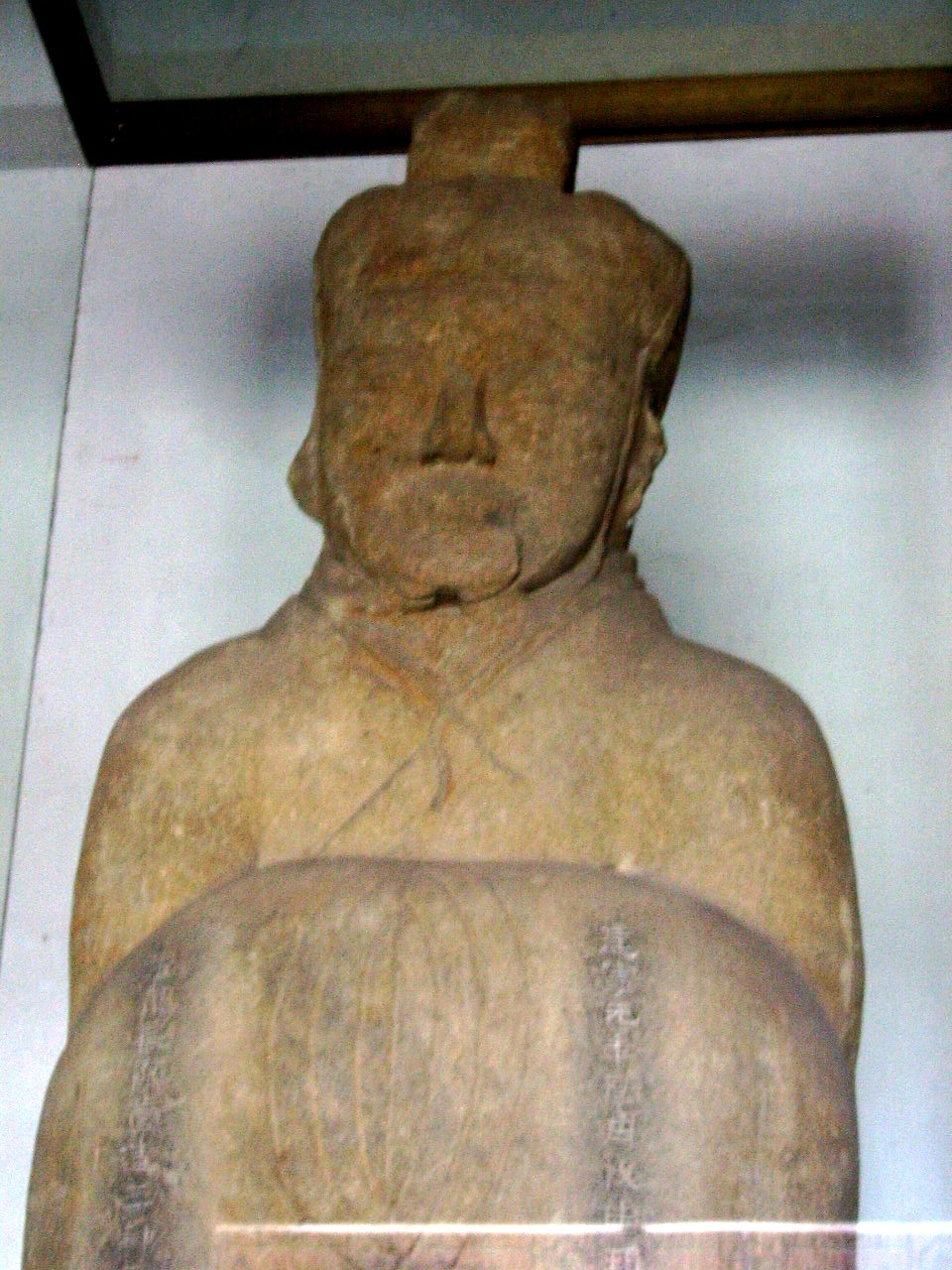 A Chinese sculpture of Li Bing on display at Dujiangyan. Standing 2.9 m high and weighing 4.5 tons, it was sculpted in the Eastern Han Dynasty (25–220 CE). Description from .